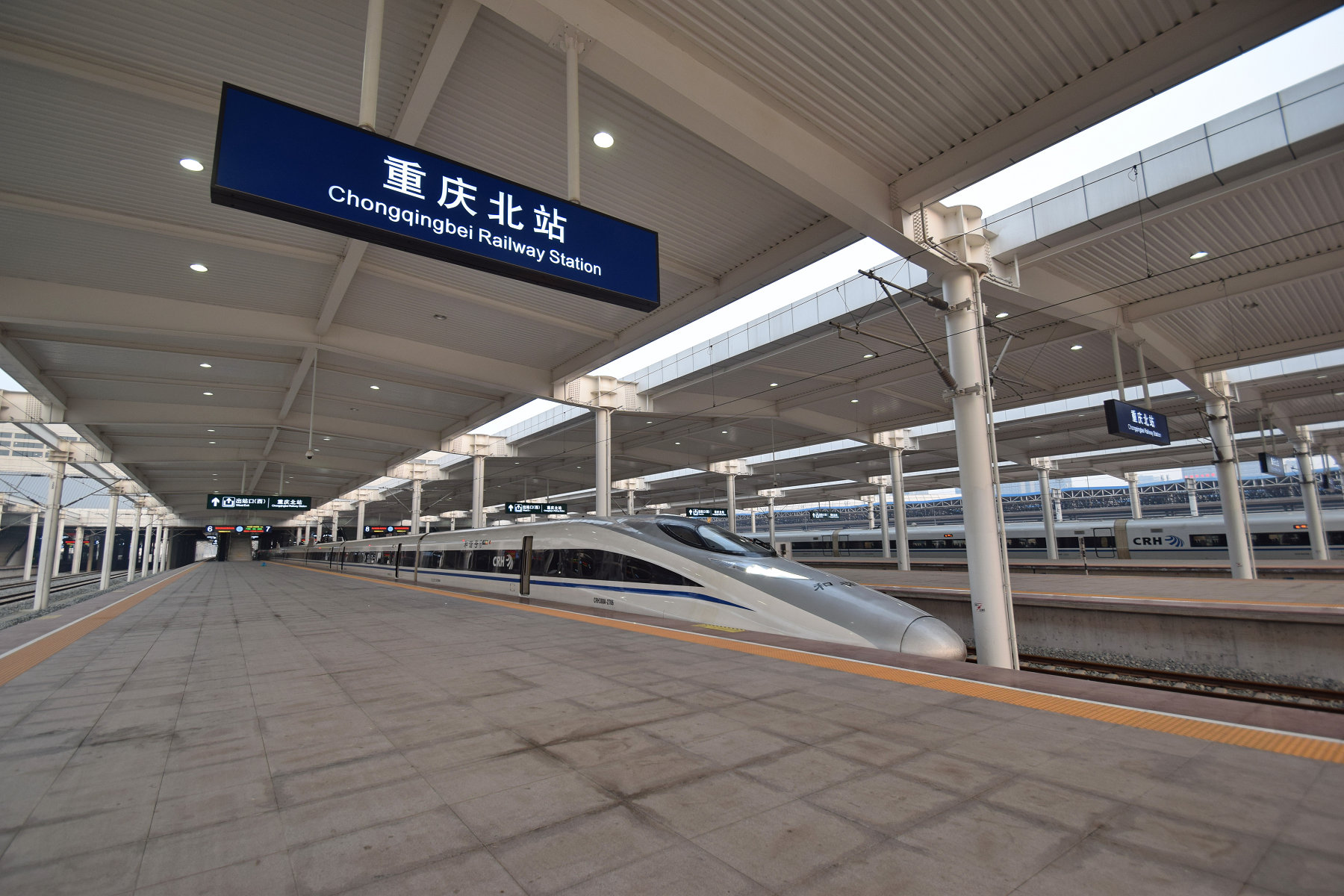 CRH380A EMU at North Square of Chongqing Bei (North) Railway Station